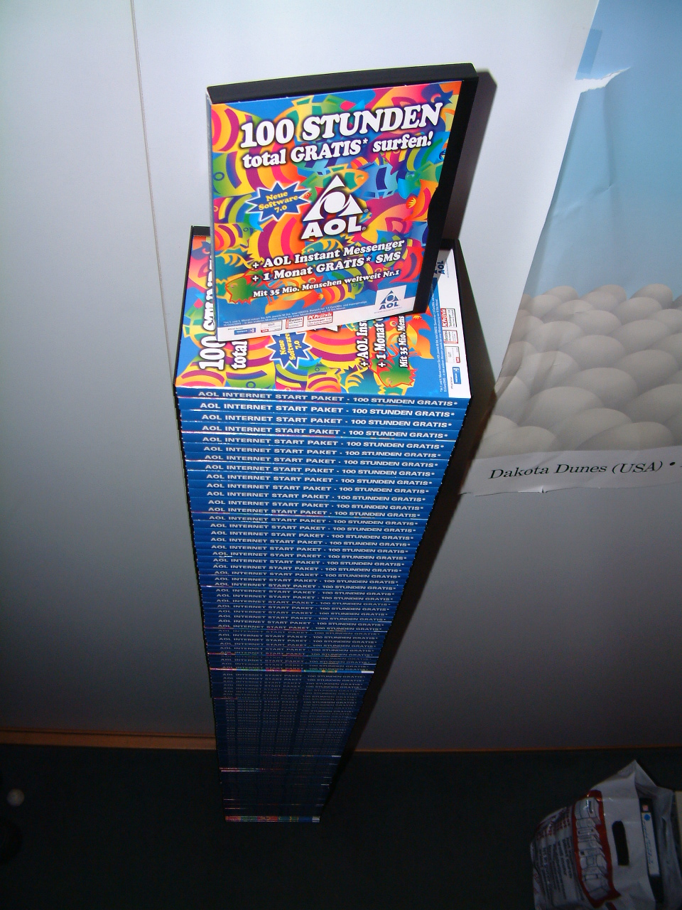 A collection of AOL CDs send to an student dormitory (which had 100 Mbit/s uplink to the university in every appartment) in Aachen, Germany.